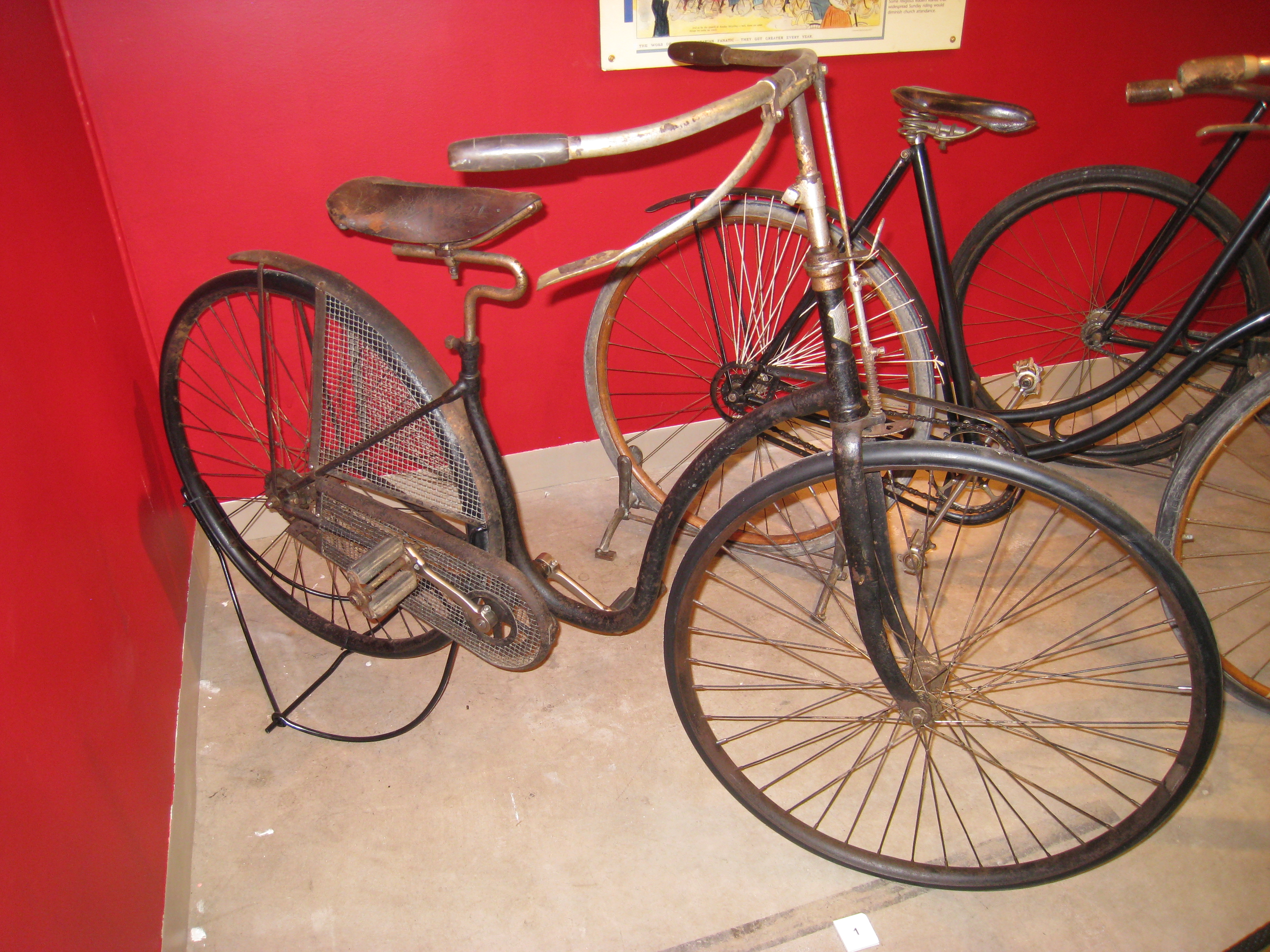 New Mail Ladies' Hard-tire Safety bicycle, circa 1891.